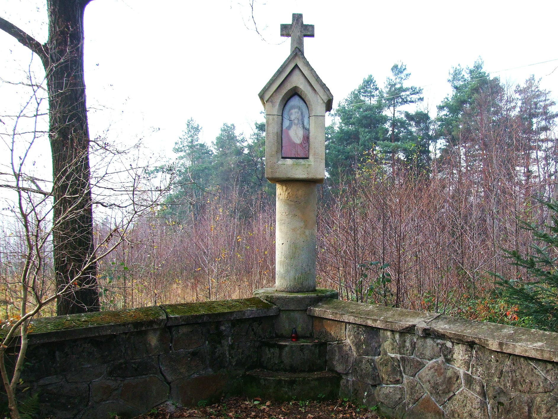 World War I Cemetery nr 304 in Łąkta Górna